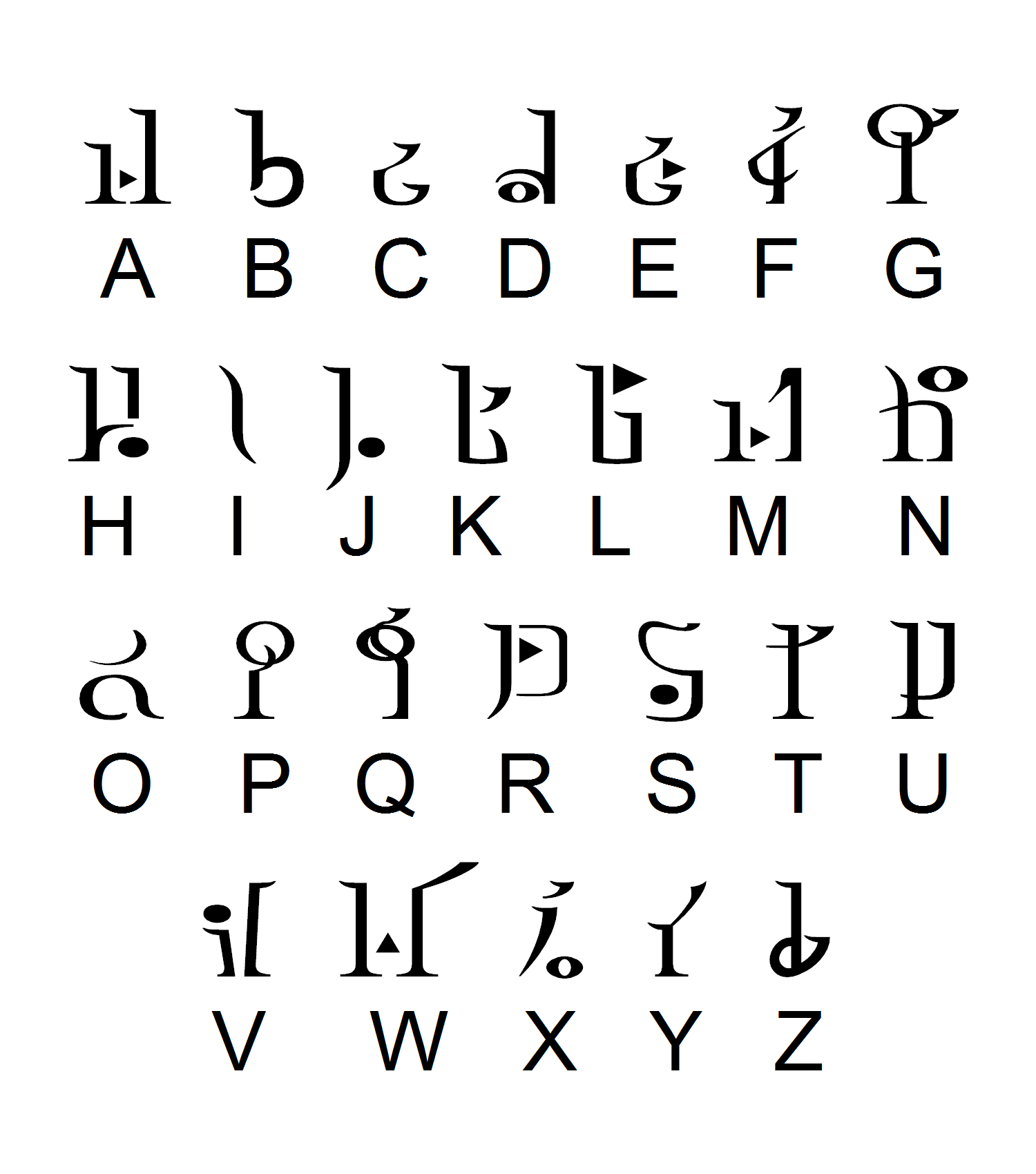 The hylian alphabet from The Legend of Zelda: Twilight Princess. This game was released for two platforms; GameCube and Wii, where the hylian alphabet in the Wii version is reversed. The one shown in this work is from the GameCube version.